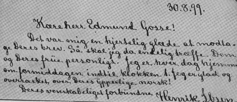 From a letter Henrik Ibsen wrote to Edmund Gosse in 1899. The text is in the Norwegian written at that time and translates to English as: “Dear Mr Edmund Gosse! It was a great pleasure to receive your letter. So I will finally meet you and your wife in person. I am at home every day around noon until 1 pm. I am delighted and surprised by your excellent Norwegian! Your friendly connected Henrik Ibsen ”